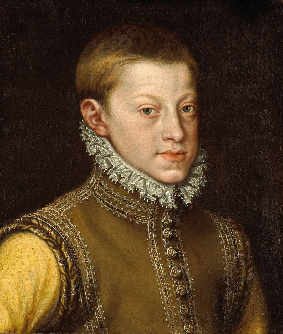 Portrait of Archduke Rudolph, later Rudolph II, Holy Roman Emperor, as a young man aged approximately 14 or 15 years old, bust length.